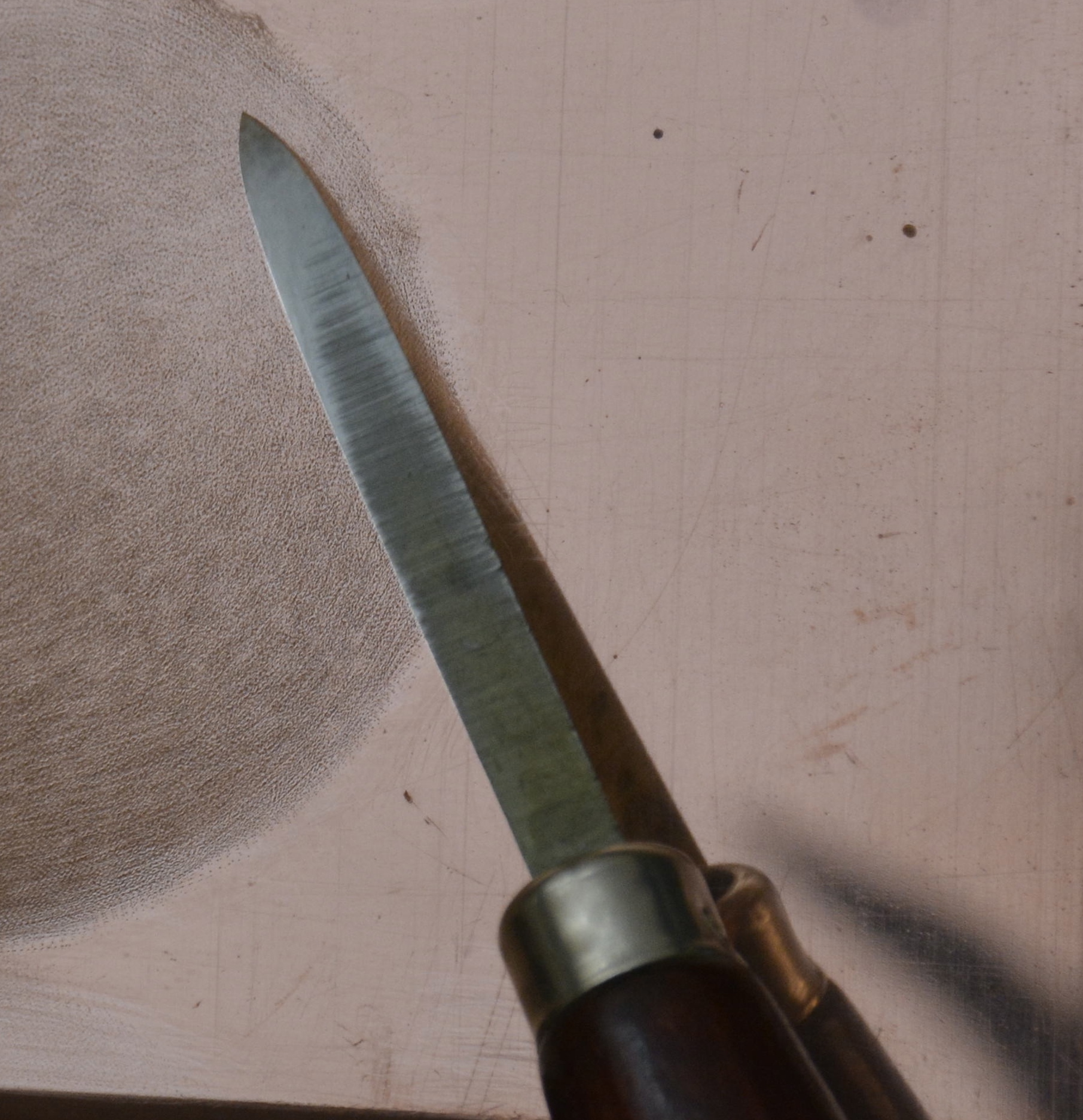 Scraper (engraving, mezzo tinto)